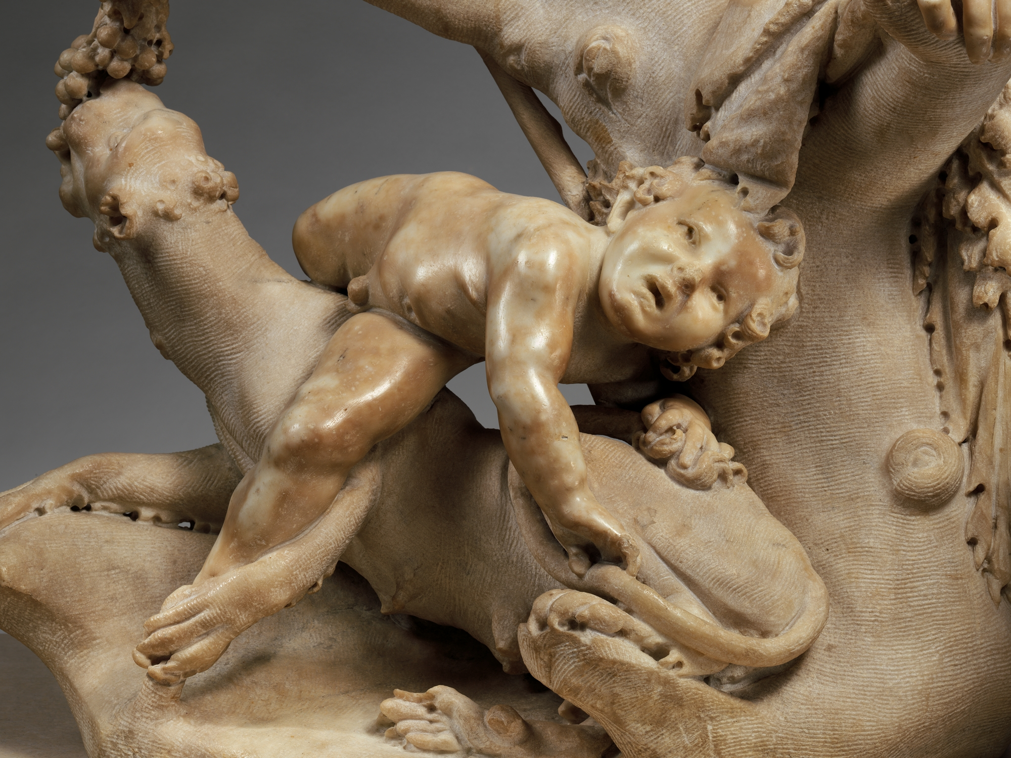 Italian, Rome; Group; Sculpture